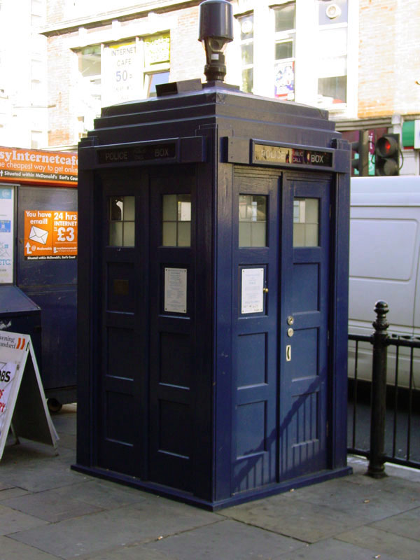 Police box located outside Earl's Court tube station in London. This has a similar outward appearance to the 1960s police boxes, but is 'bristling with new technology'[1].